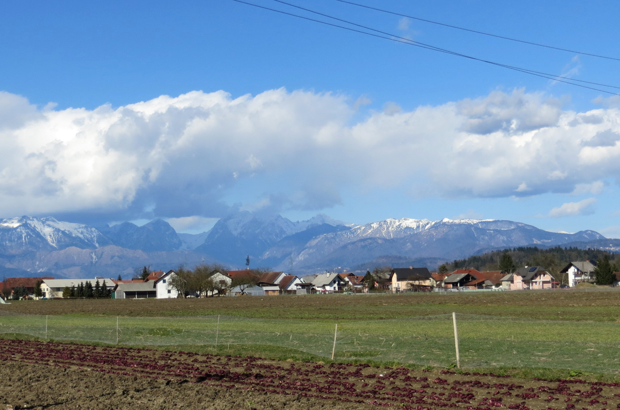 Študa, a hamlet of Domžale, Slovenia